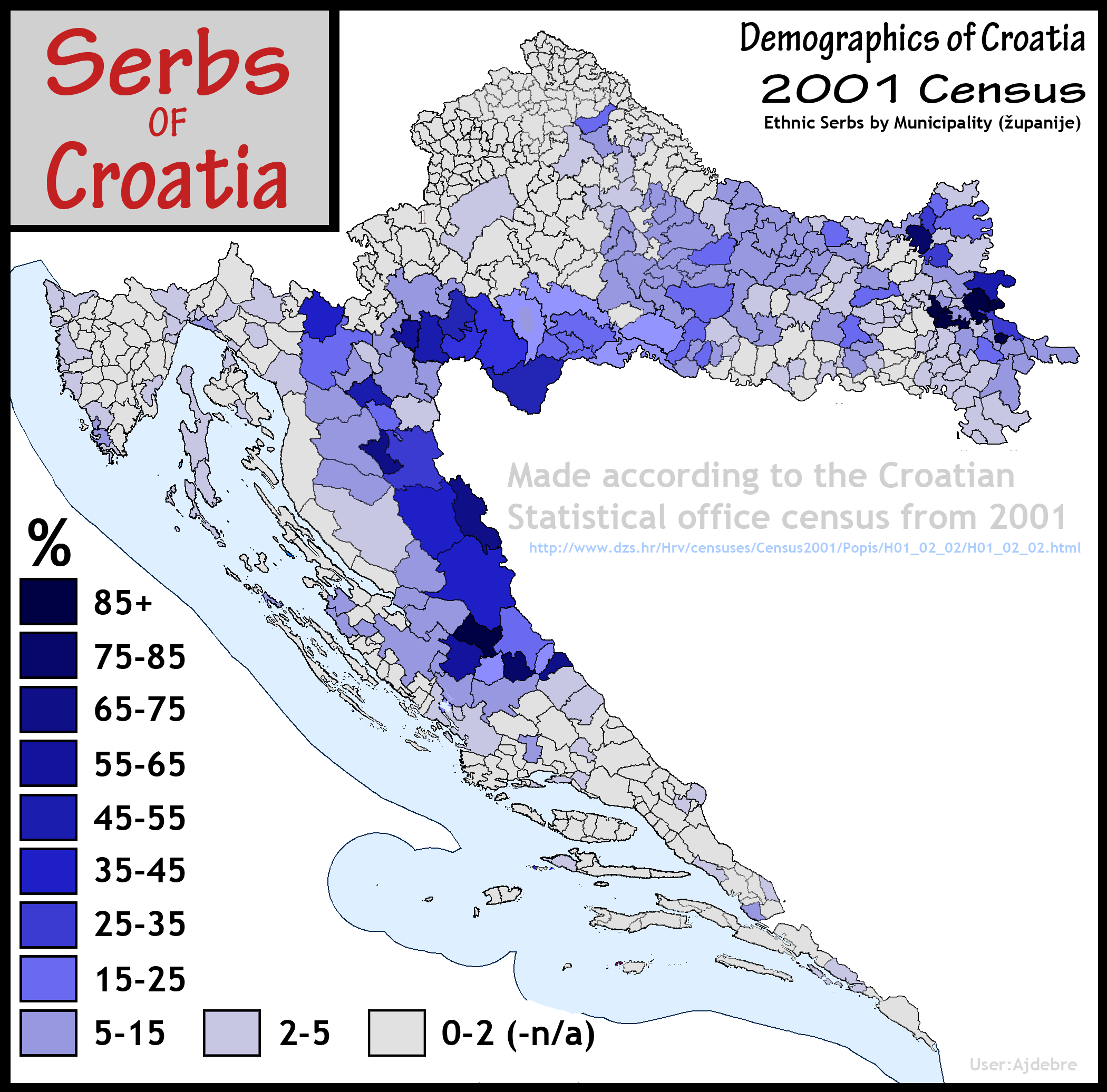 Selfmade Demographic map of Croatia in 2001, statistics of Ethnic Serbs, according to Croatian census (Crostat)